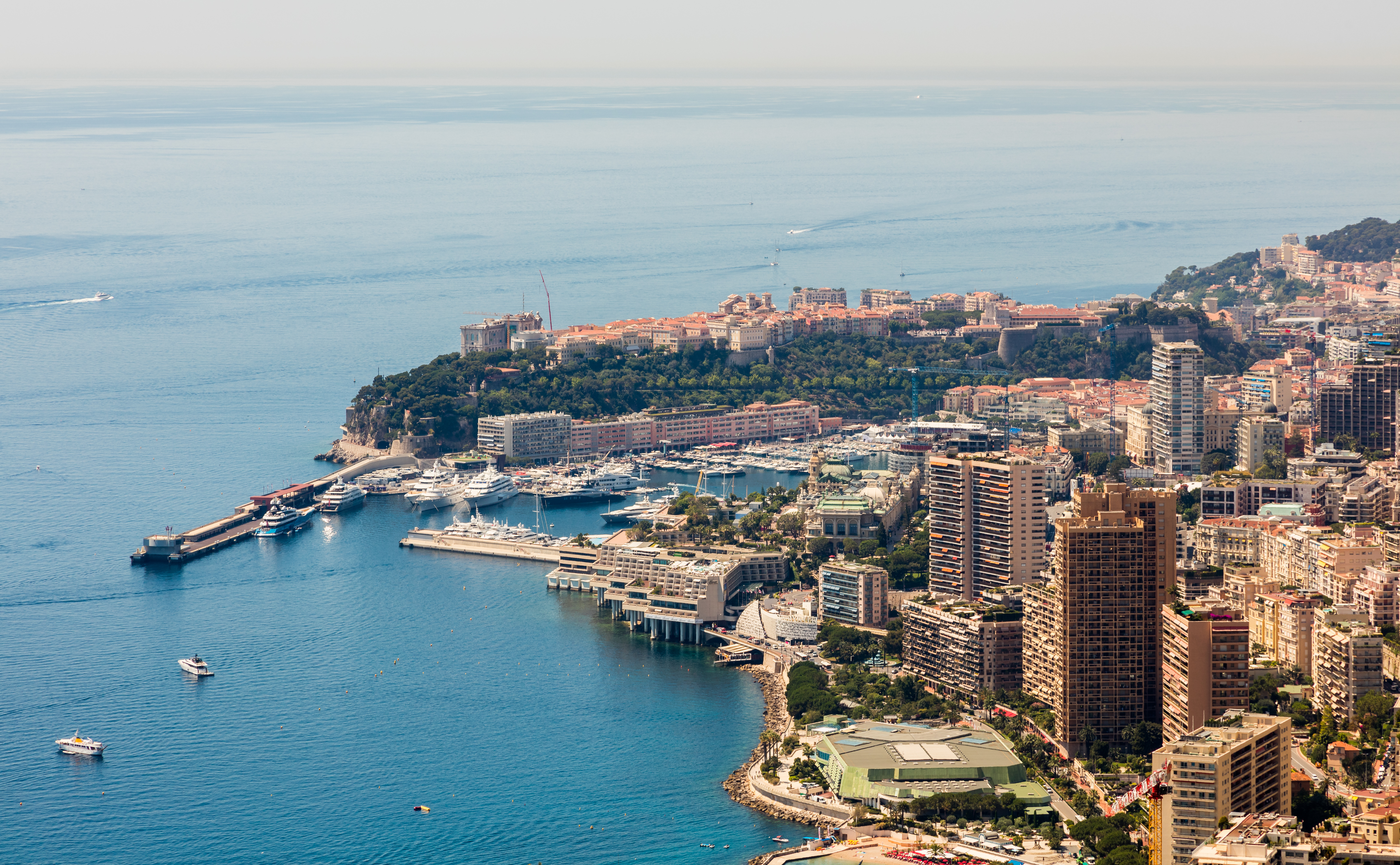 View of Monaco